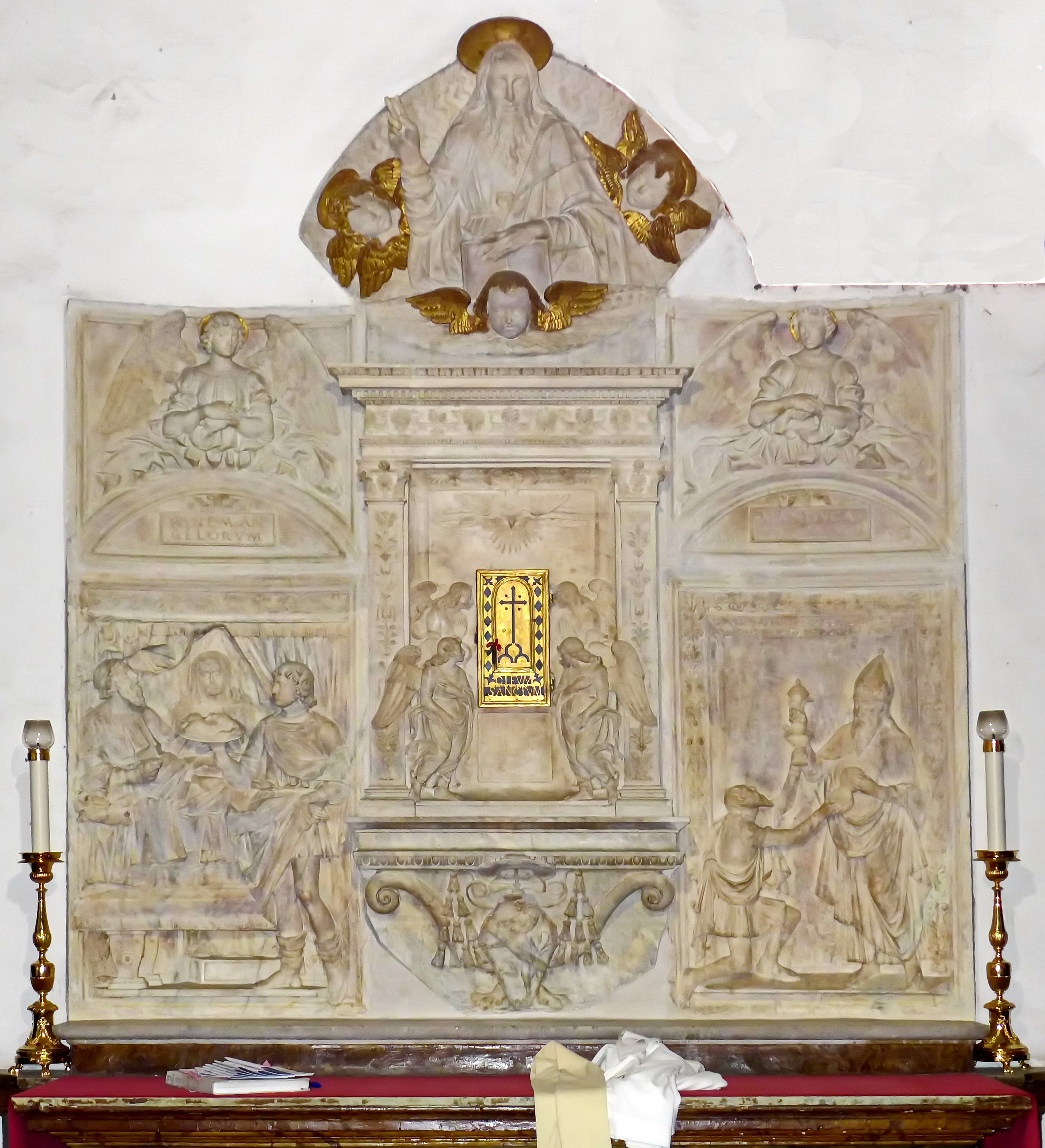 Tabernakel; San Marco (Sacristy), Rome